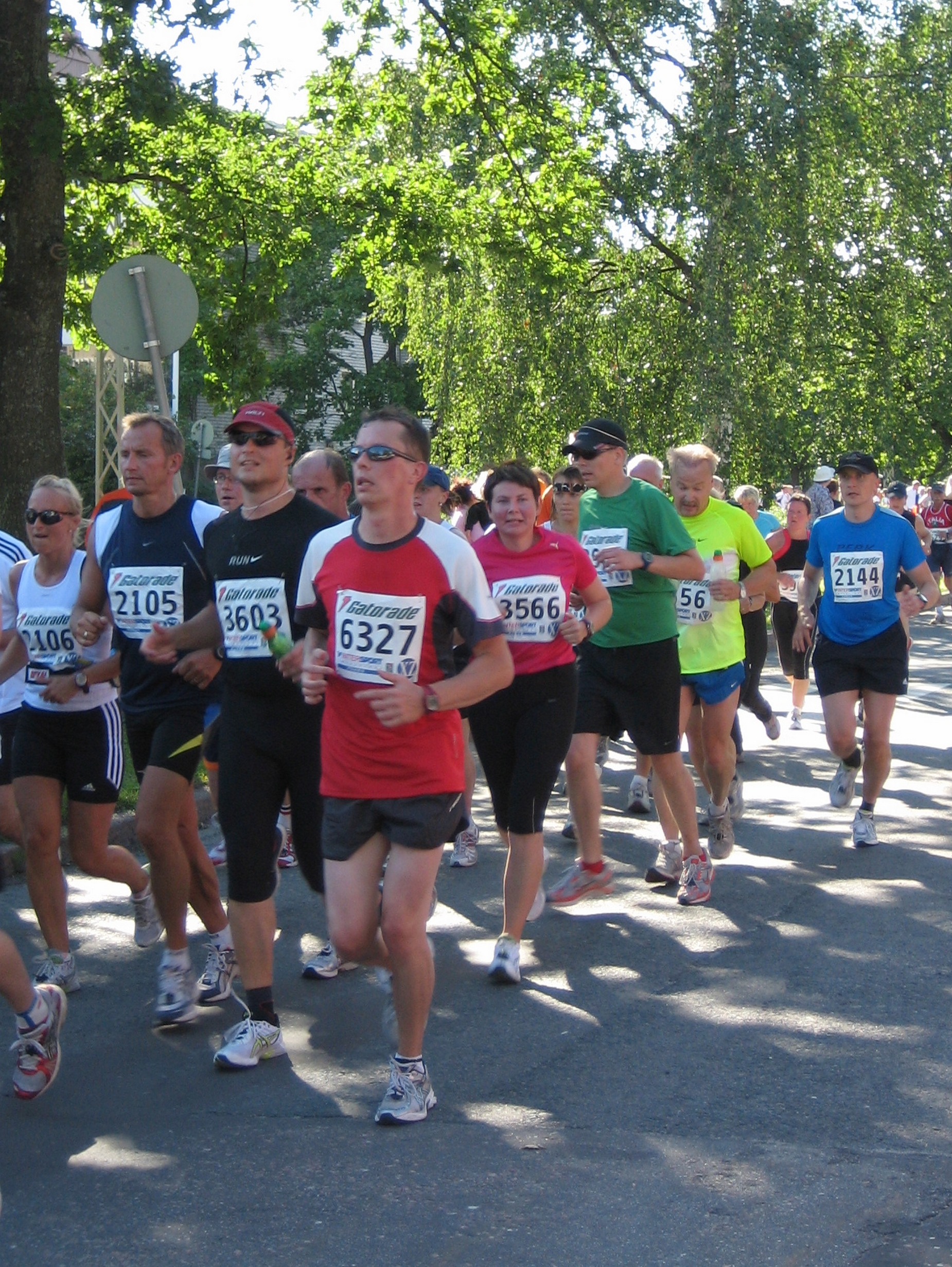 Runners on Helsinki City Marathon 2007. The Helsinki City Marathon is an annual event with more than 6,000 runners and 50,000 watchers.